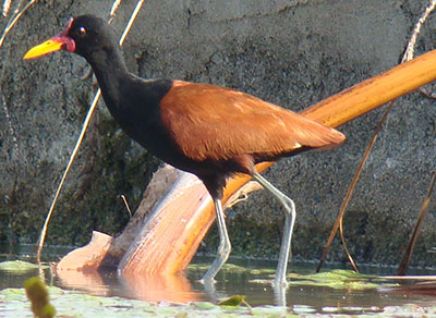 Jaçanã looking for food.